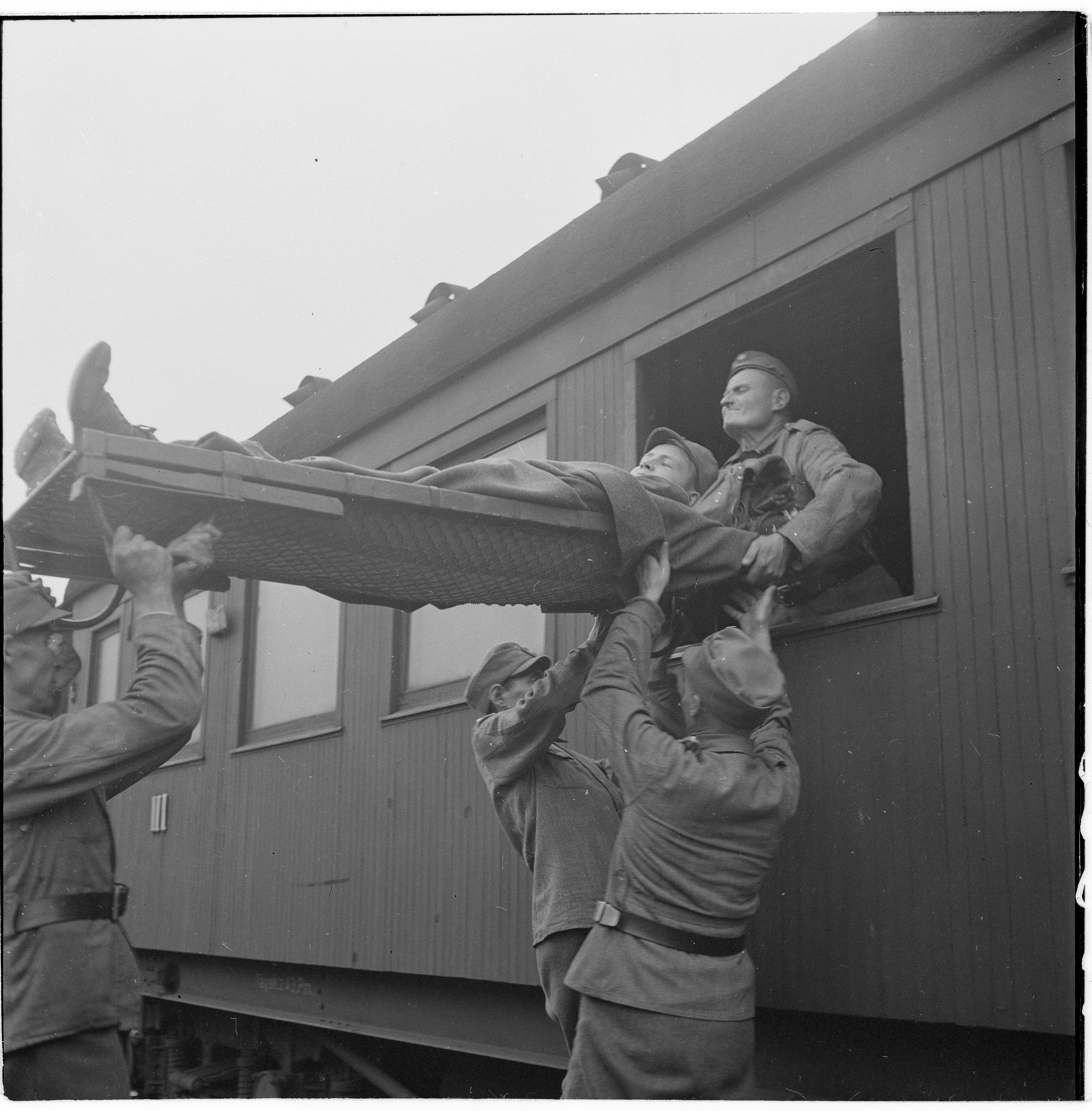 Potilaita lastataan rautatievaunuun Plksaaren sairaalasta evakoitaessa.